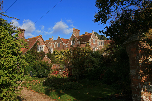 Anderson Manor Anderson Manor was built in 1622 for John Tregonwell, and was described three years later in Coker's Survey of Dorsetshire, as a 'faire newe house'. In more recent times it was taken over by the War Dept. during the Second World War, and became the headquarters for the Small Scale Raiding Force of 62 Commando. After the SSRF disbanded in 1943, Anderson Manor ended its wartime role as Station 62 under the Special Operations Executive (S.O.E.). The house is Grade I Listed.